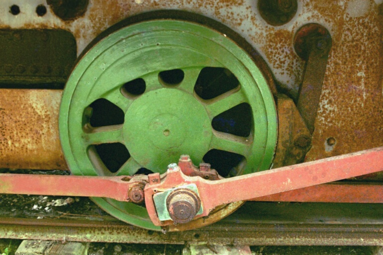 Detail of a little saddle tank locomotive again at Amberly Chalk pits.